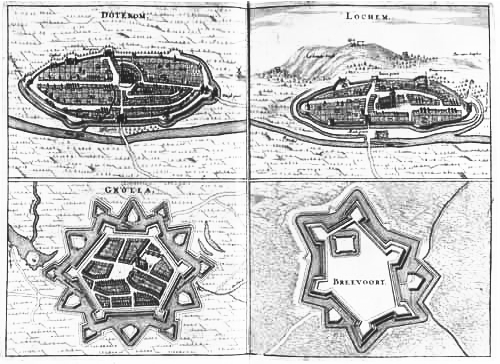 Cities in County Zutphen, Groenlo, Doetinchem, Lochem, Bredevoort.